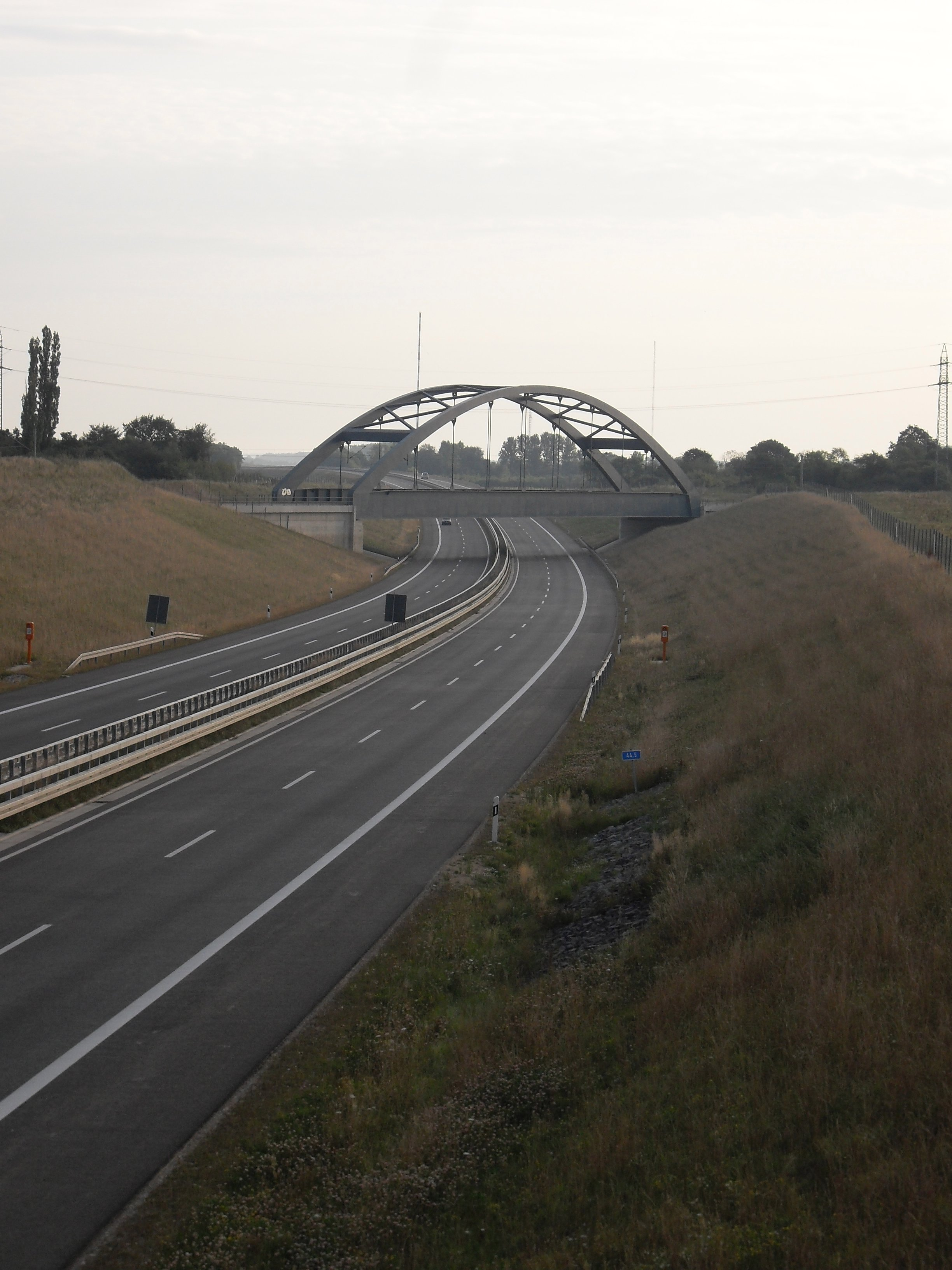 railroad bridge on A39 Autobahn near Schandelah (Cremlingen), Germany